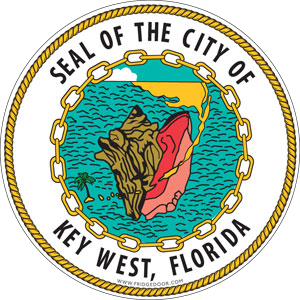 Seal.